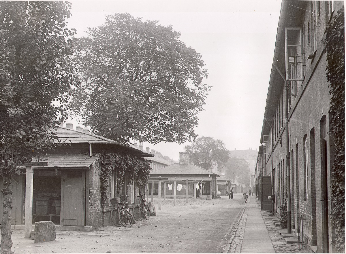 Brumleby in Copenhagen, Denmark